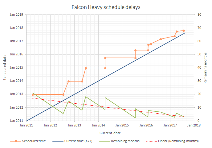 SpaceX Falcon Heavy schedule delays